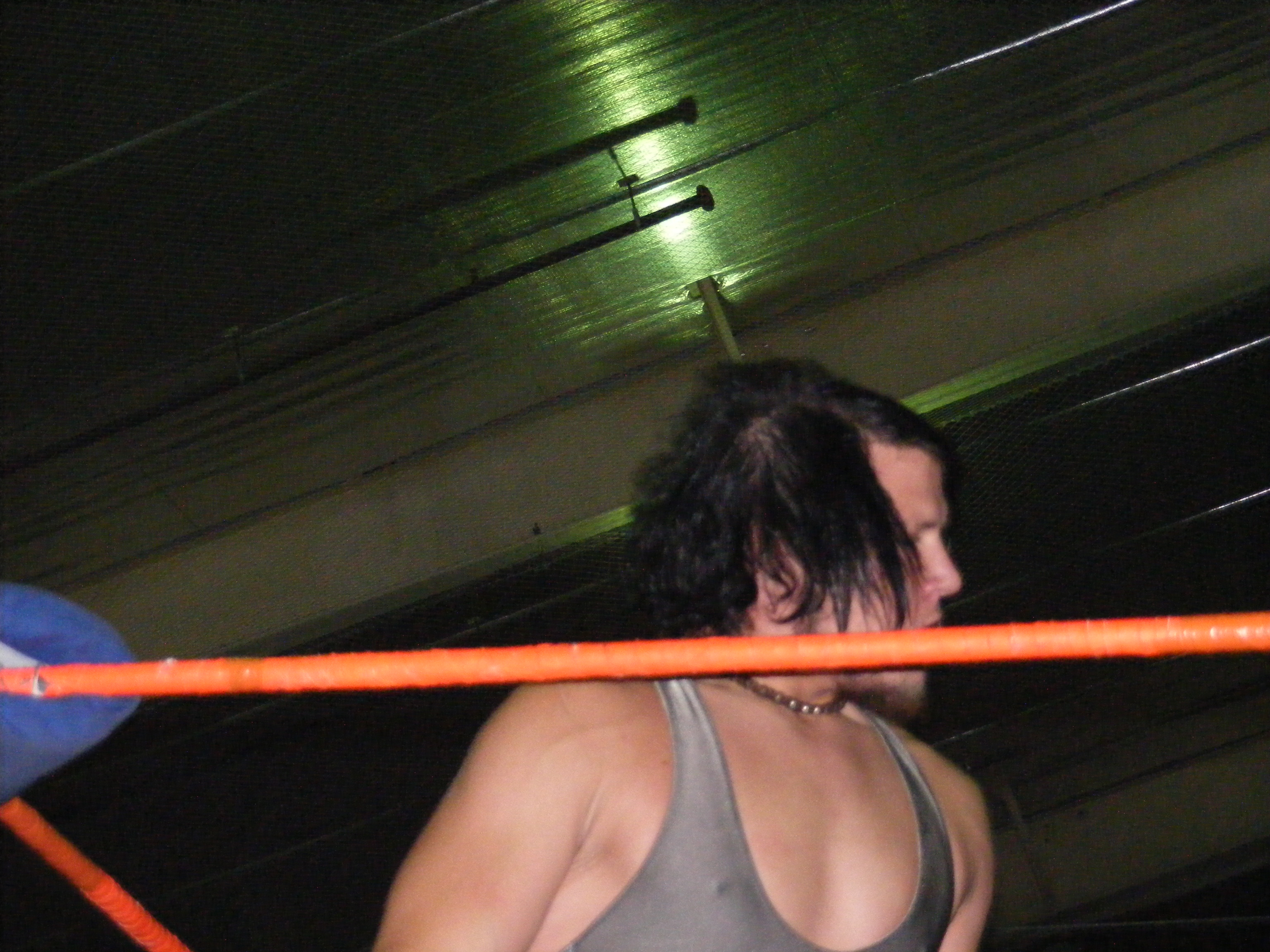 Sami Callihan during a 2CW show on September 17, 2011.